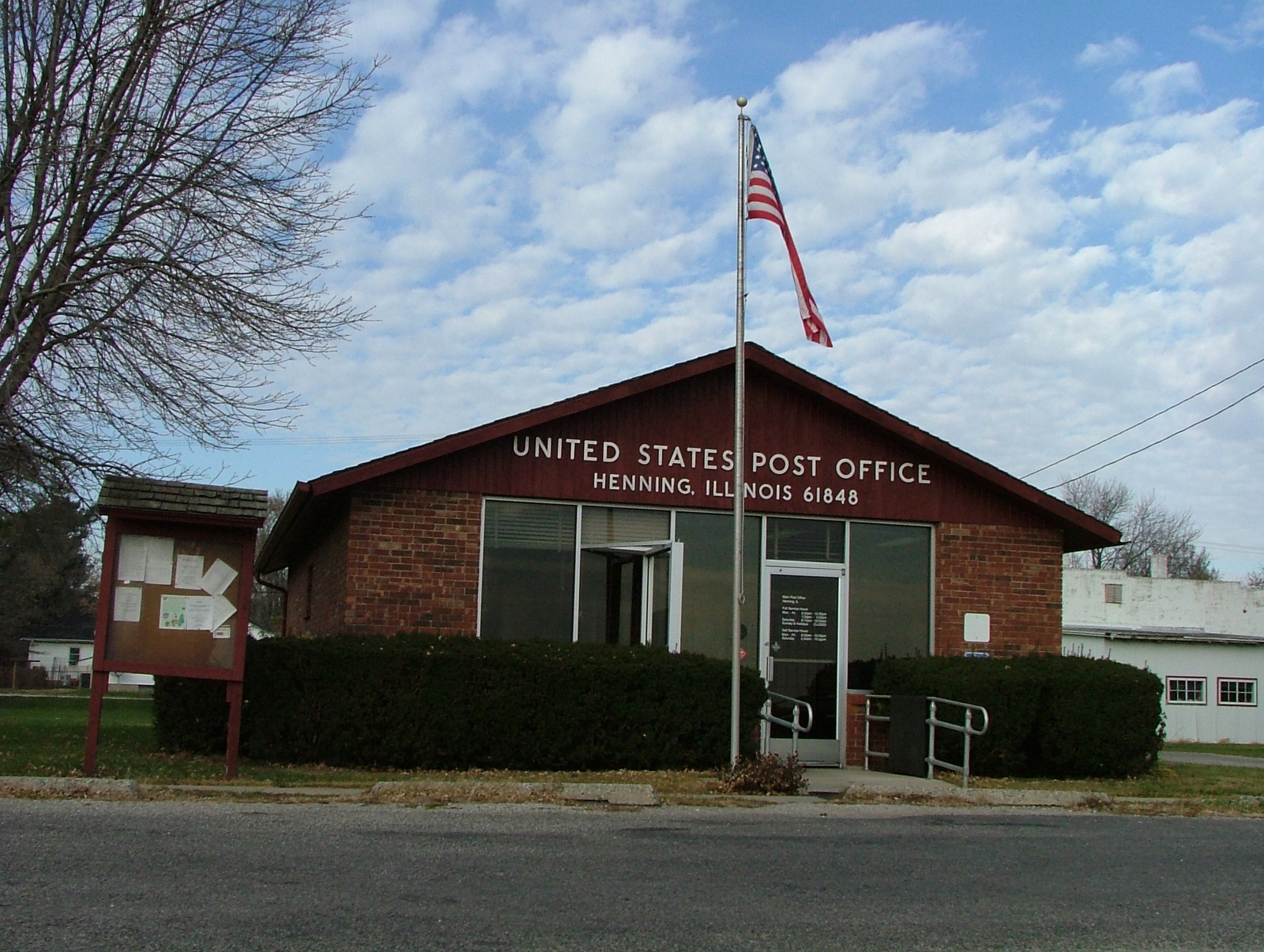 The post office at 122 Lane Street in Henning, Illinois, USA, looking north